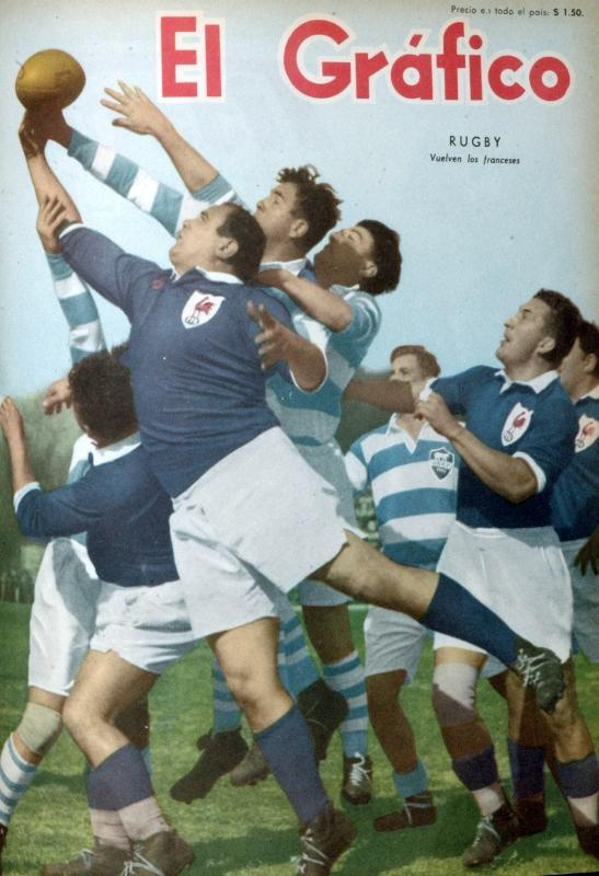 A scene from the match played between Argentina and France rugby union teams in 1954.